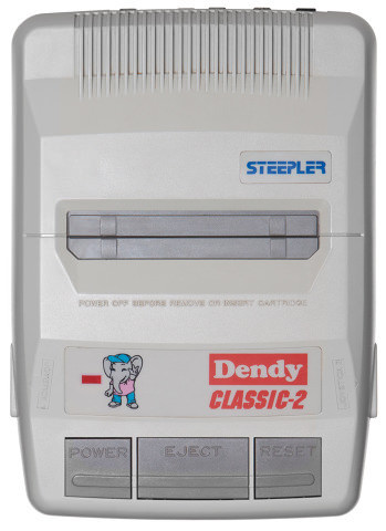 thngs.co/things/7308